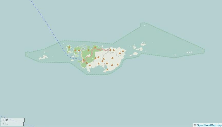 OpenStreetMap maps of Lastovo archipelago